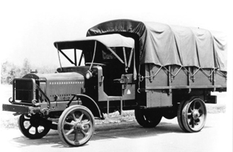 WWI Liberty truck "Standard Class B", 3 tn